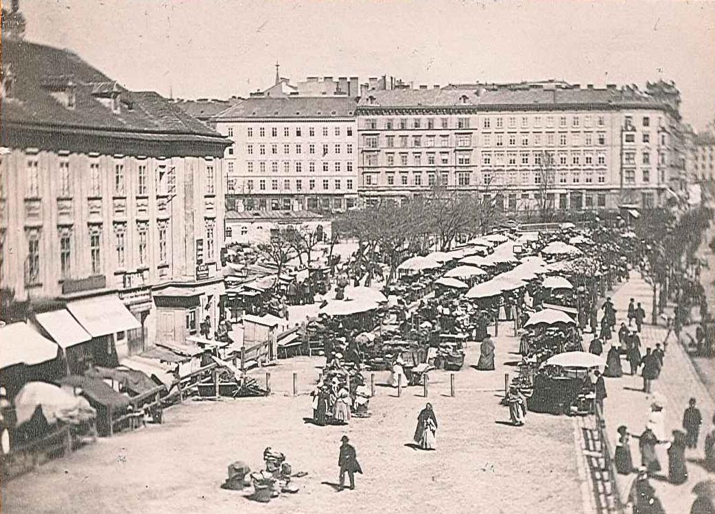 Vienna, fruit market, ca. 1870/80